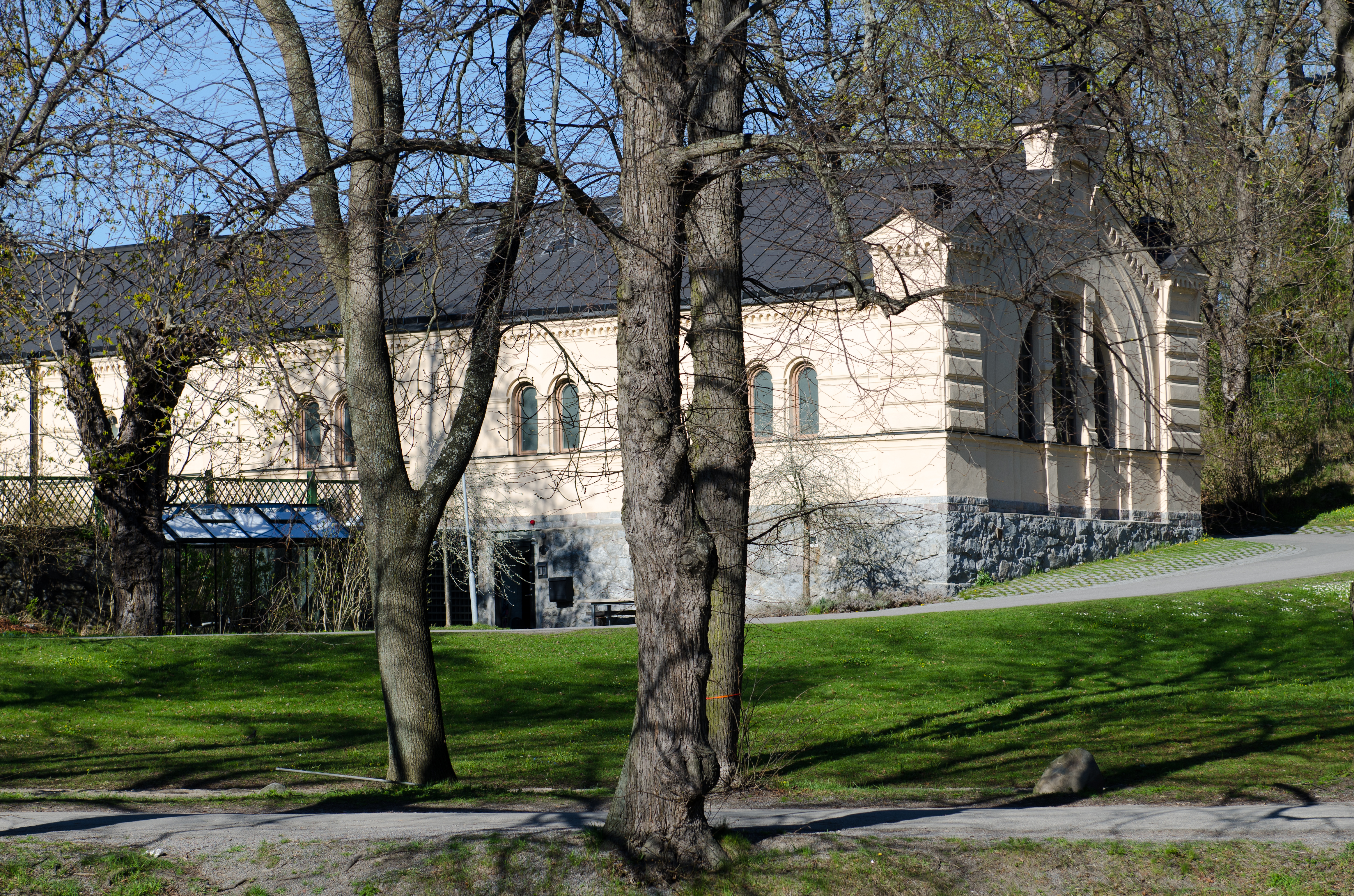 Judiska teatern (the Jewish theater) in Stockholm.